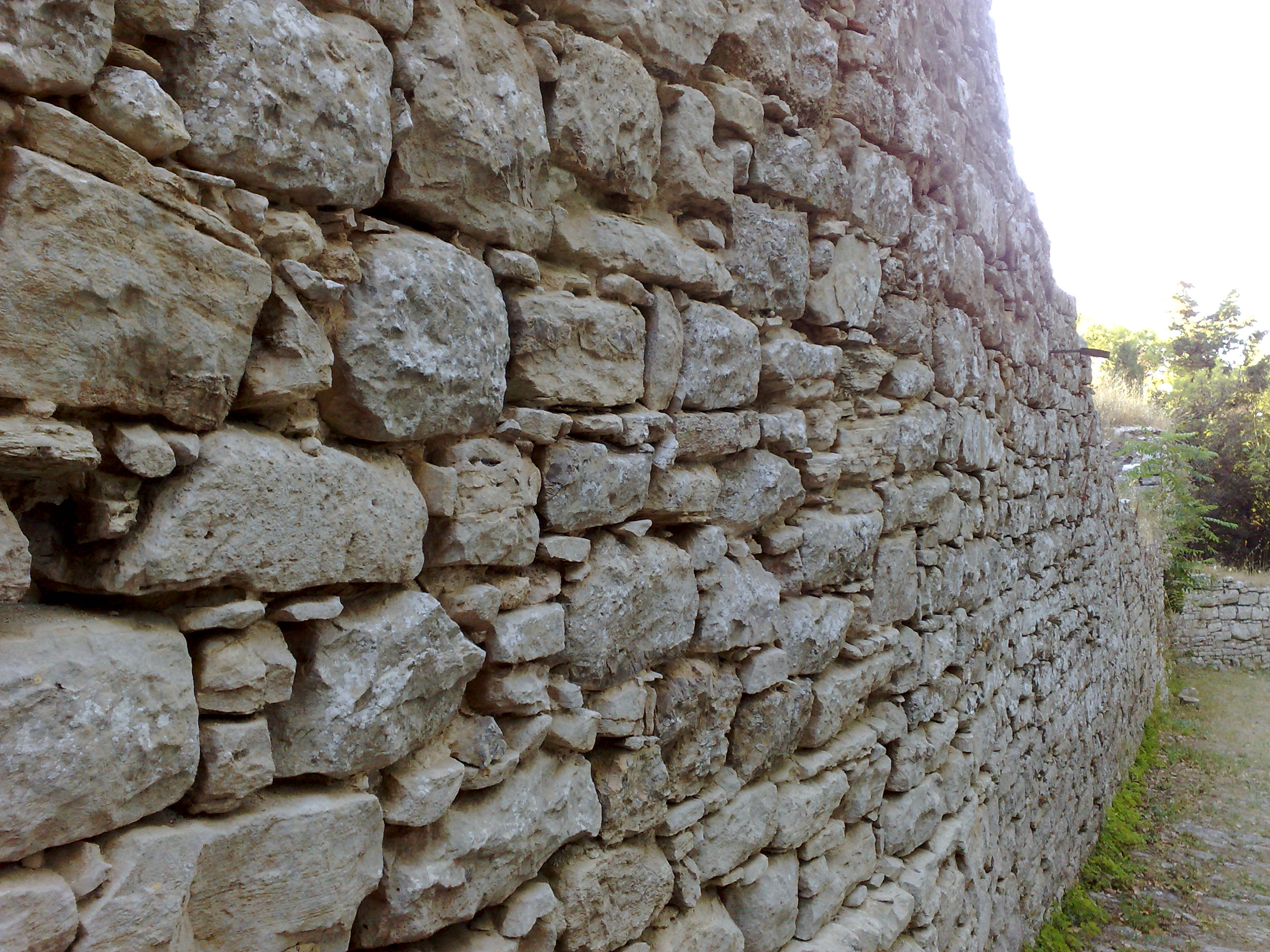 punic walls inErice